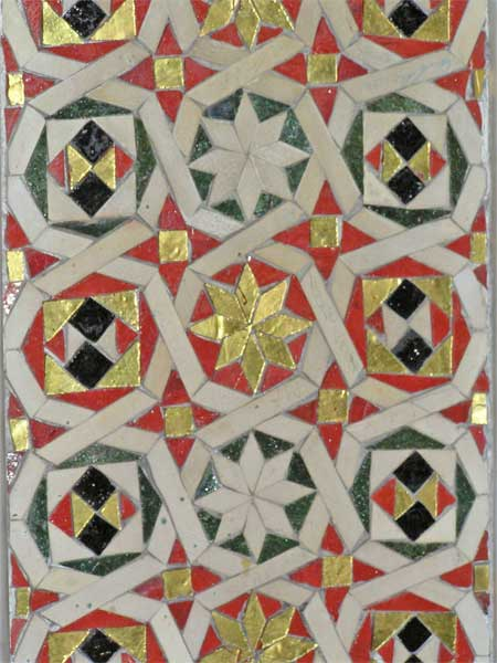 Detail of Mosaic (interior), Monreale, Italy